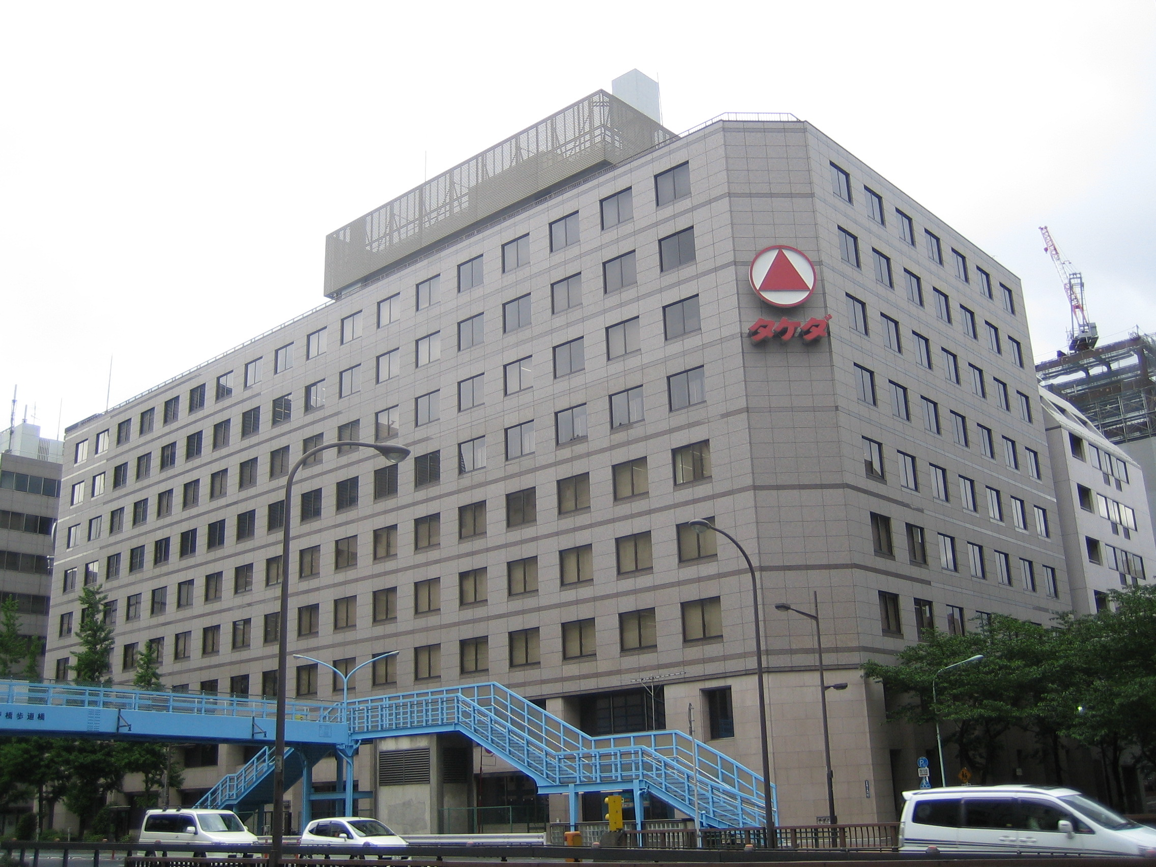 Takeda Pharmaceutical Company (武田薬品工業 Takeda Yakuhin Kōgyō), at Nihonbashi, Chuo, Tokyo, Japan